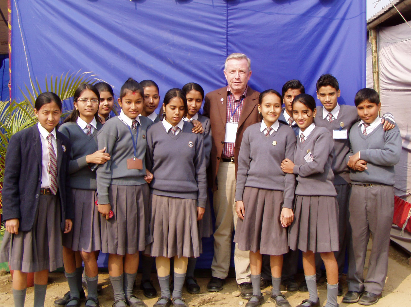 School Uniforms in Kathmandu, Nepal